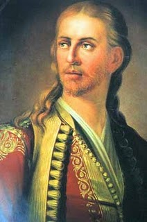 Ilias Mavromichalis (born 1795 in Mani, died 1822 in Styra) was a commander of the Maniots who participated in the Greek War of Independence.